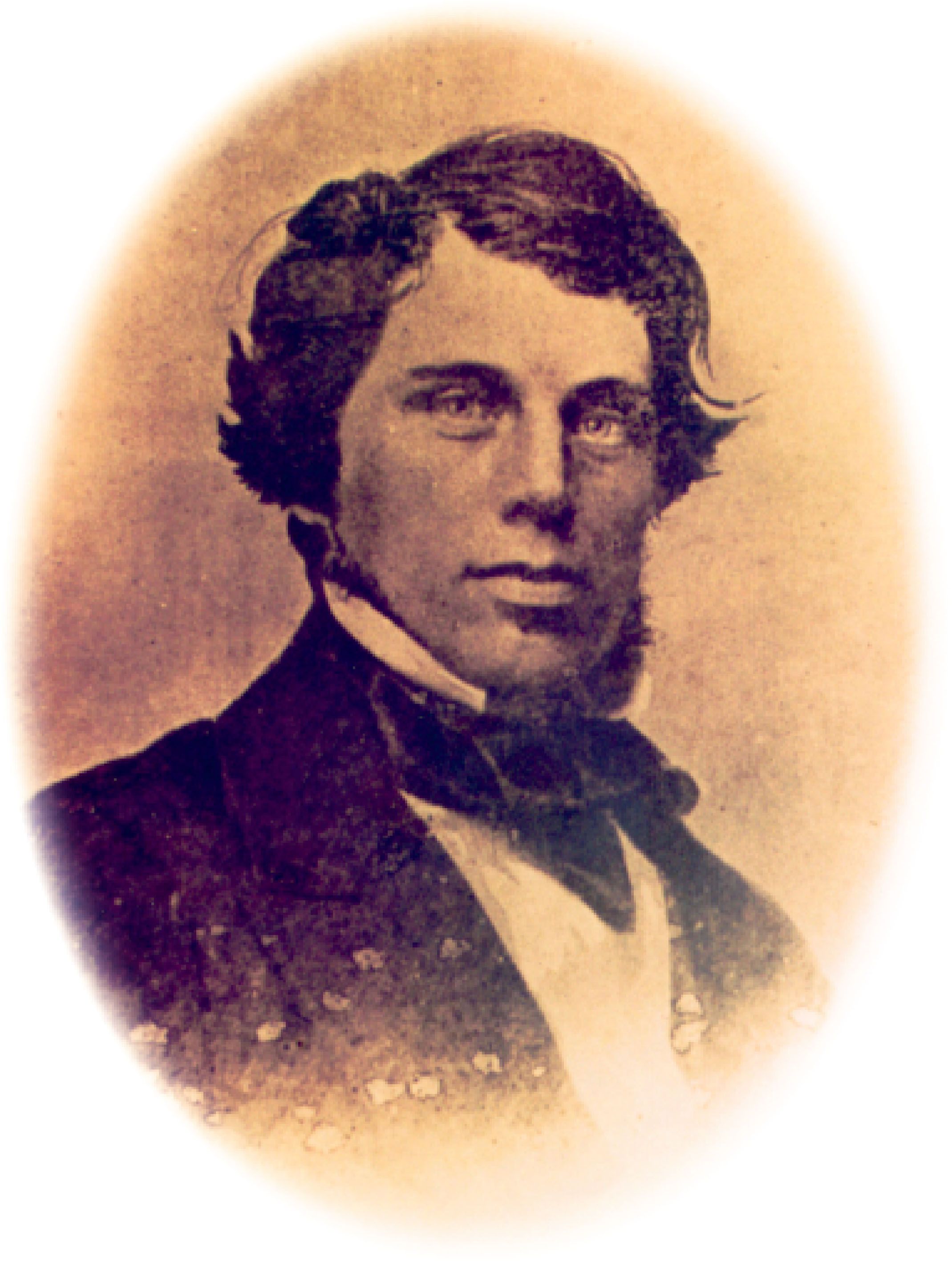 Photographic portrait of James McConnell, engineer